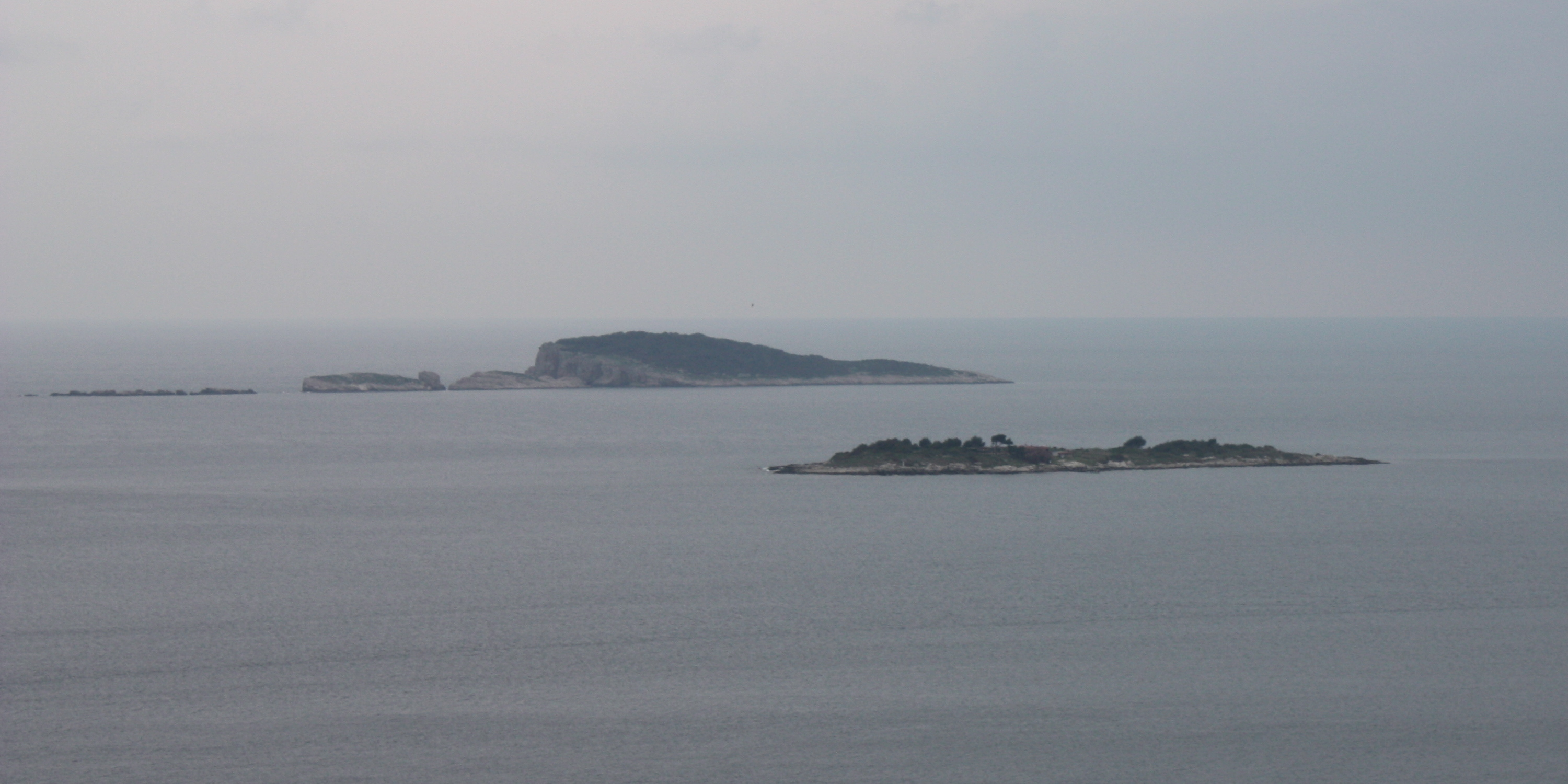 Island Supetar (Adriatic sea)